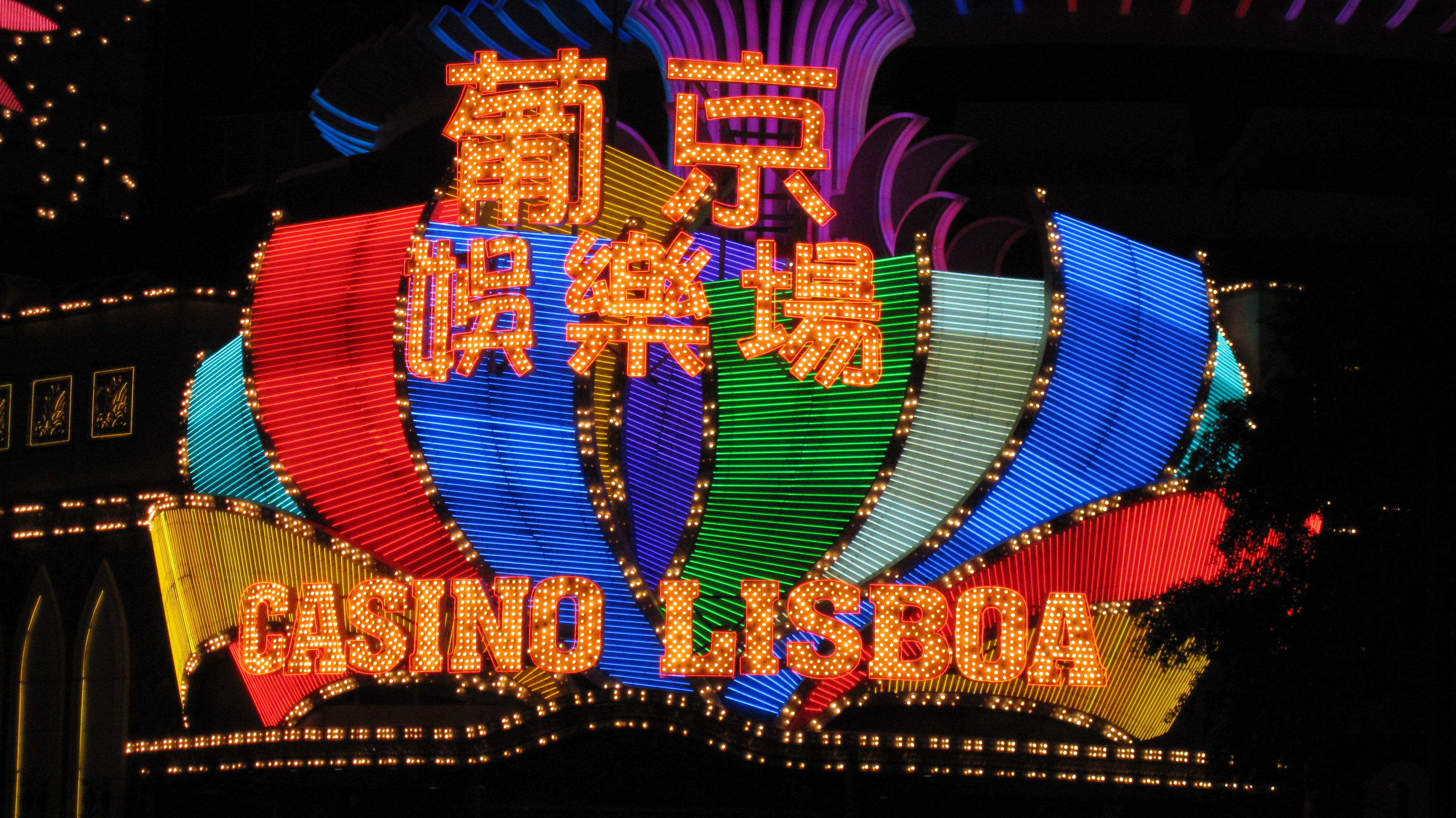 Casino Lisboa